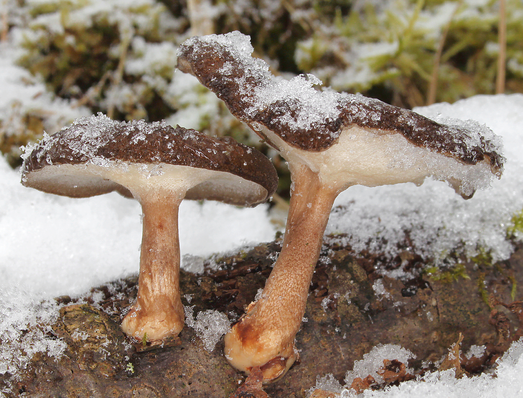 Polyporus brumalis, Family: Polyporaceae, Location: Germany, Ulm, Eggingen